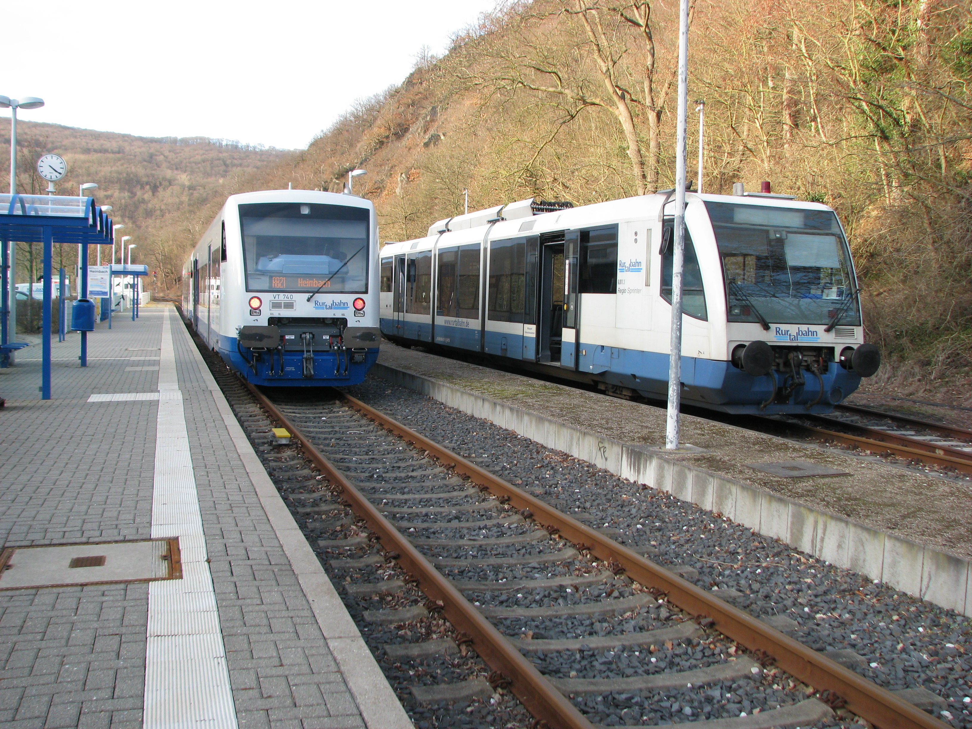 2 Stadler Regio-Shuttle RS1 (VT742+VT740) of the Rur Valley railway and 1 RegioSprinter at Heimbach station.